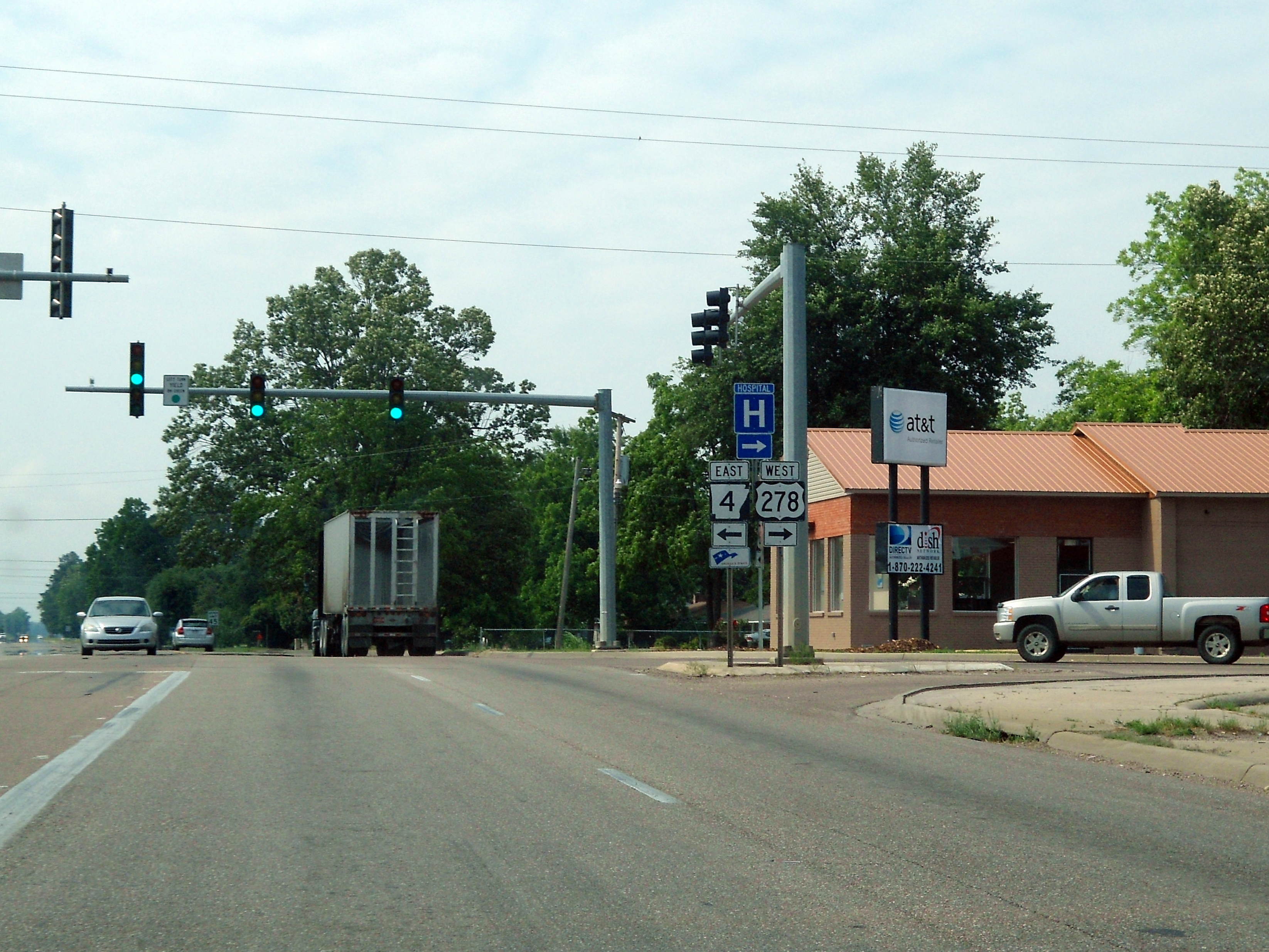 US 65 and US 165 intersect Highway 4 and US 278, with the Great River Road designation joining Highway 4 west